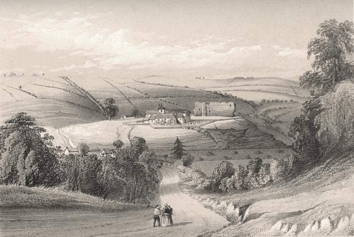 Bewcastle, from the South. Lithographed by J. S. Kell.